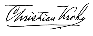 Signature of Norwegian painter Christian Krohg.